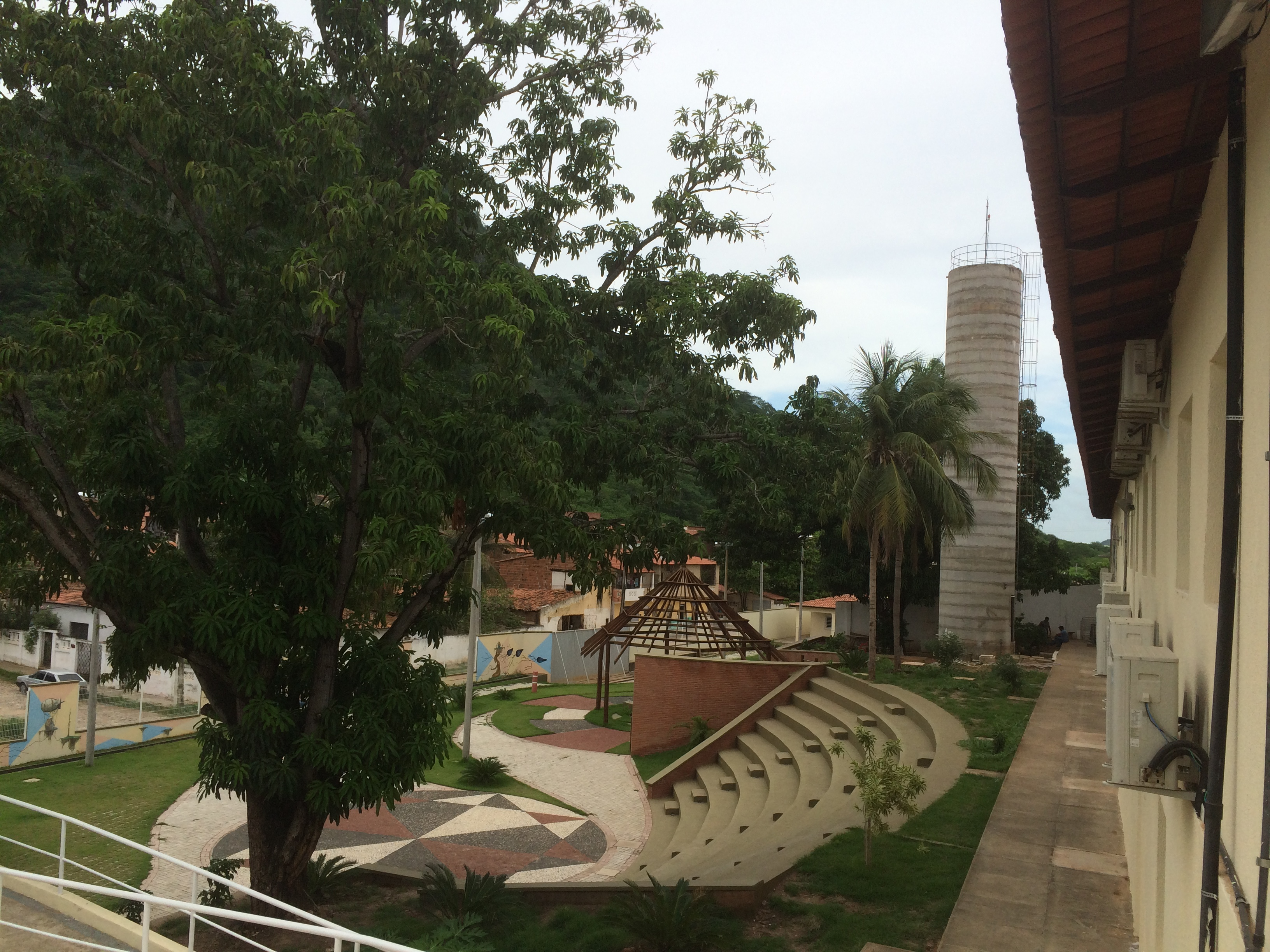 UNILAB